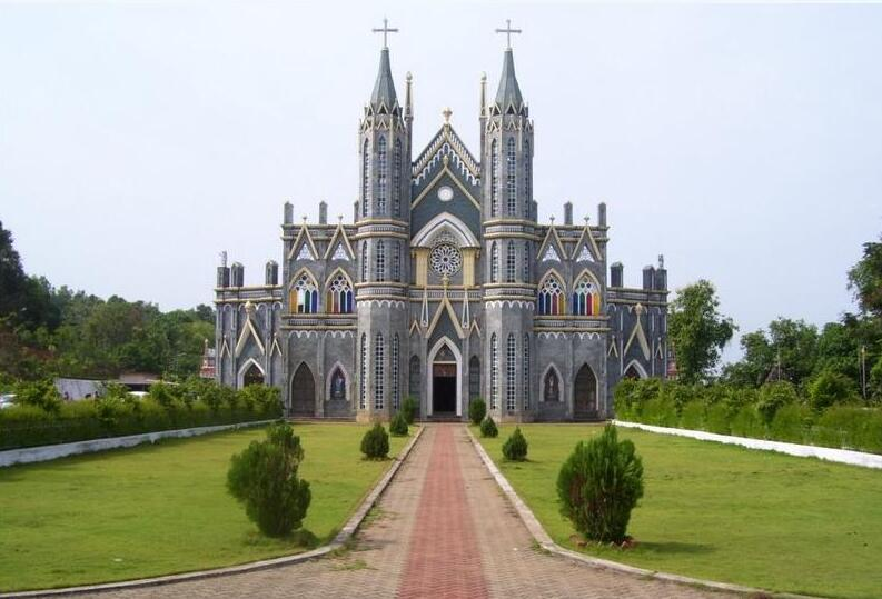 St. Lawrence Shrine on the outskirts of Karkala in South Canara (near Mangalore)